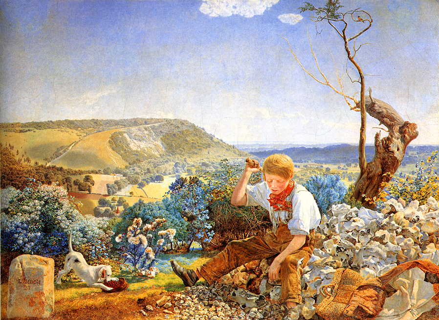 The Stonebreaker